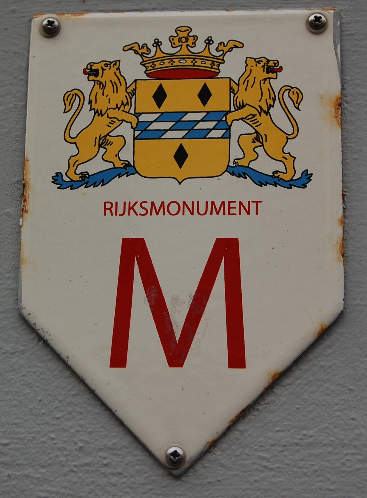 Dutch shield for National monuments, as used only in Woerden, The Netherlands